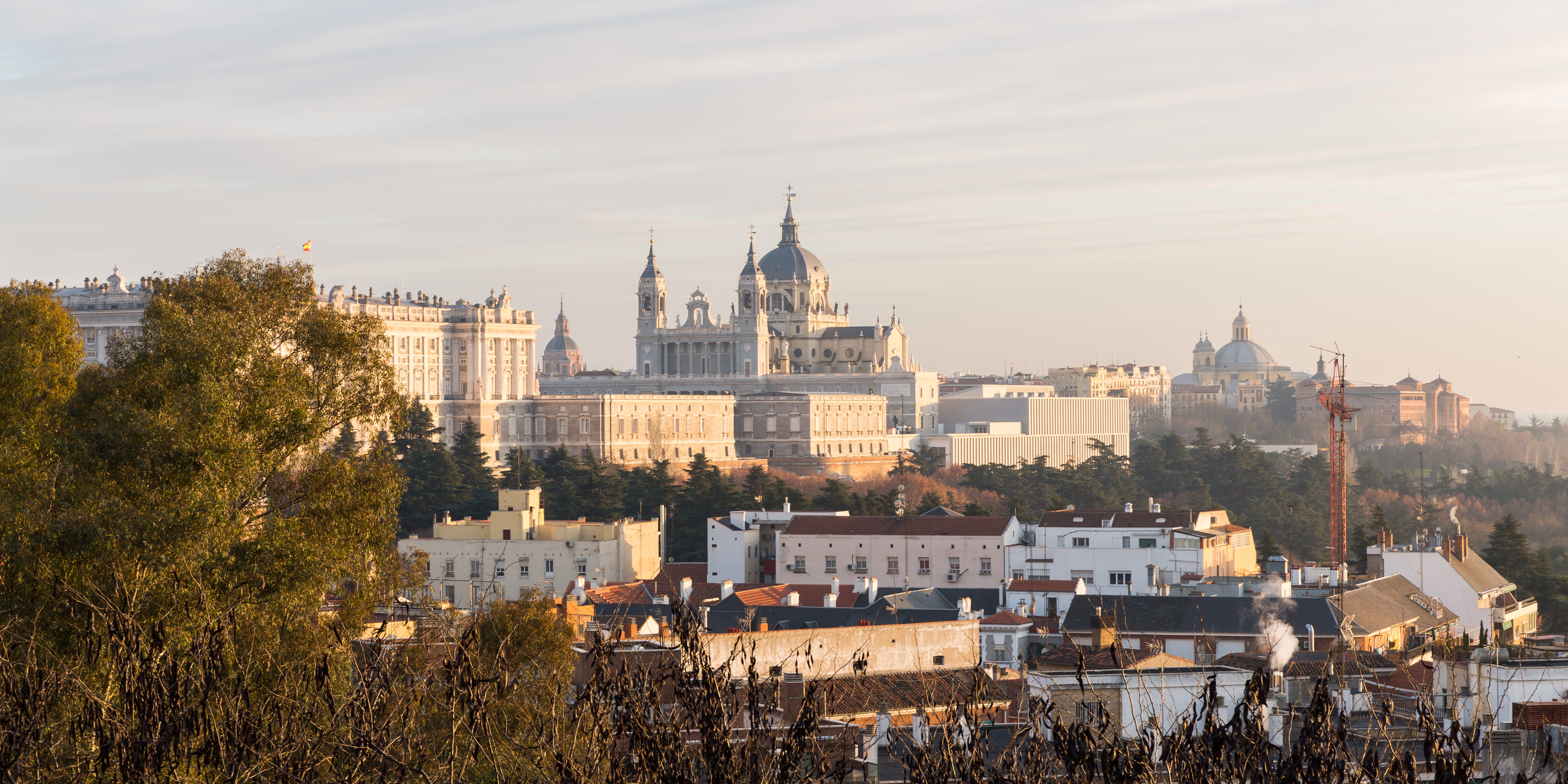 Almudena Cathedral, Madrid, Spain